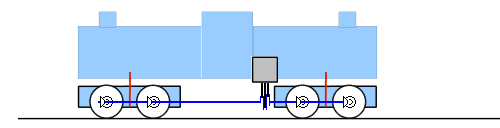 Shay locomotive (Fairlie locomotive)